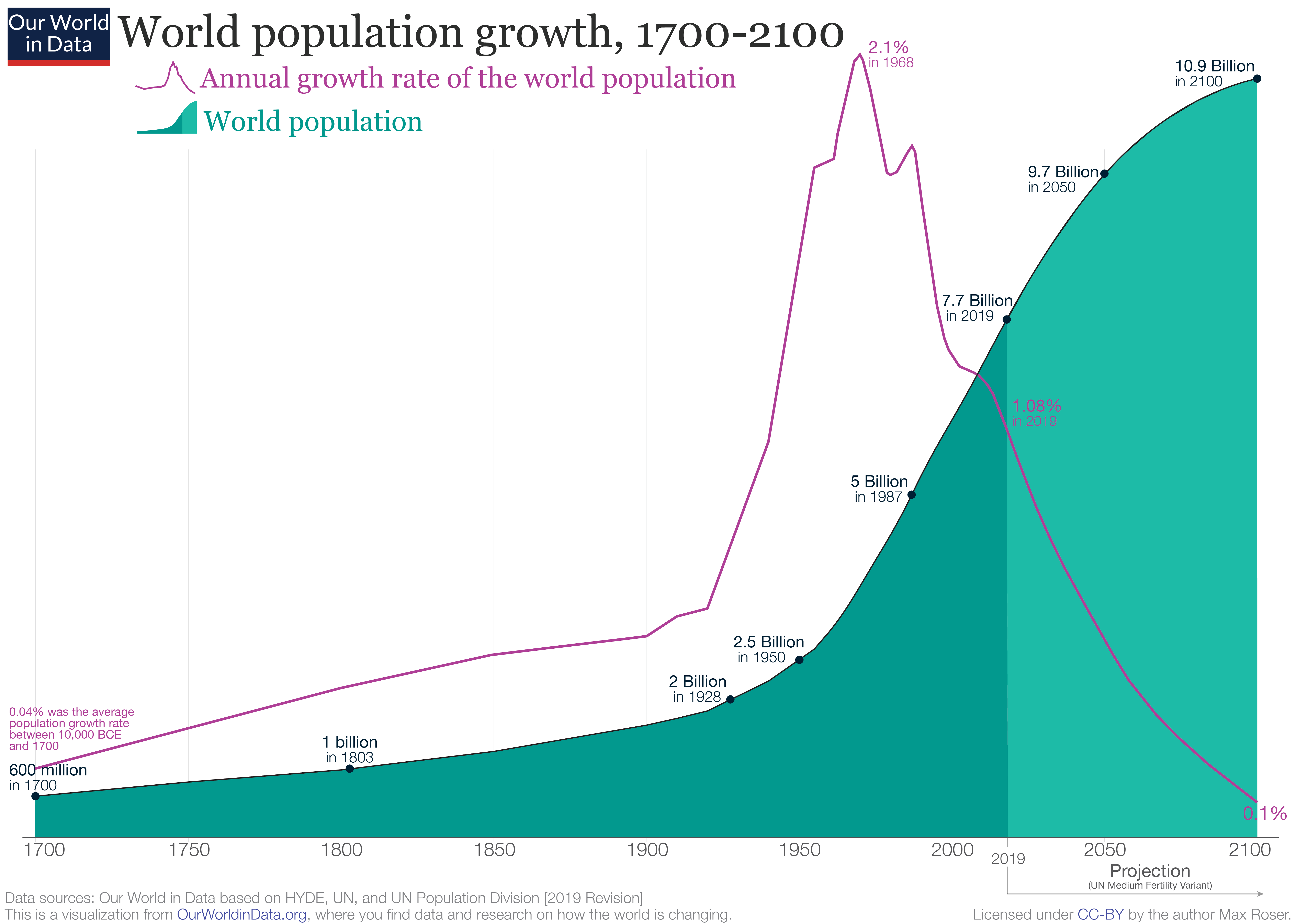 World population (green shaded area) and world population growth rate (red line) for the period: 1700 - 2100 based on data from the UN Population Division, 2109 revision